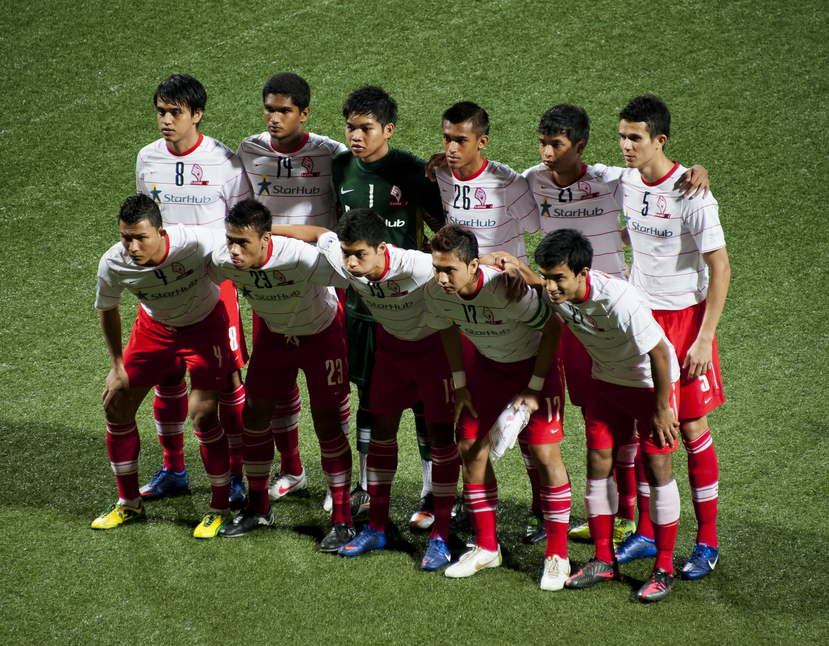 The starting eleven of the LionsXII against Kuala Lumpur FA during the 2013 Malaysia Super League in Jalan Besar Stadium, Singapore.